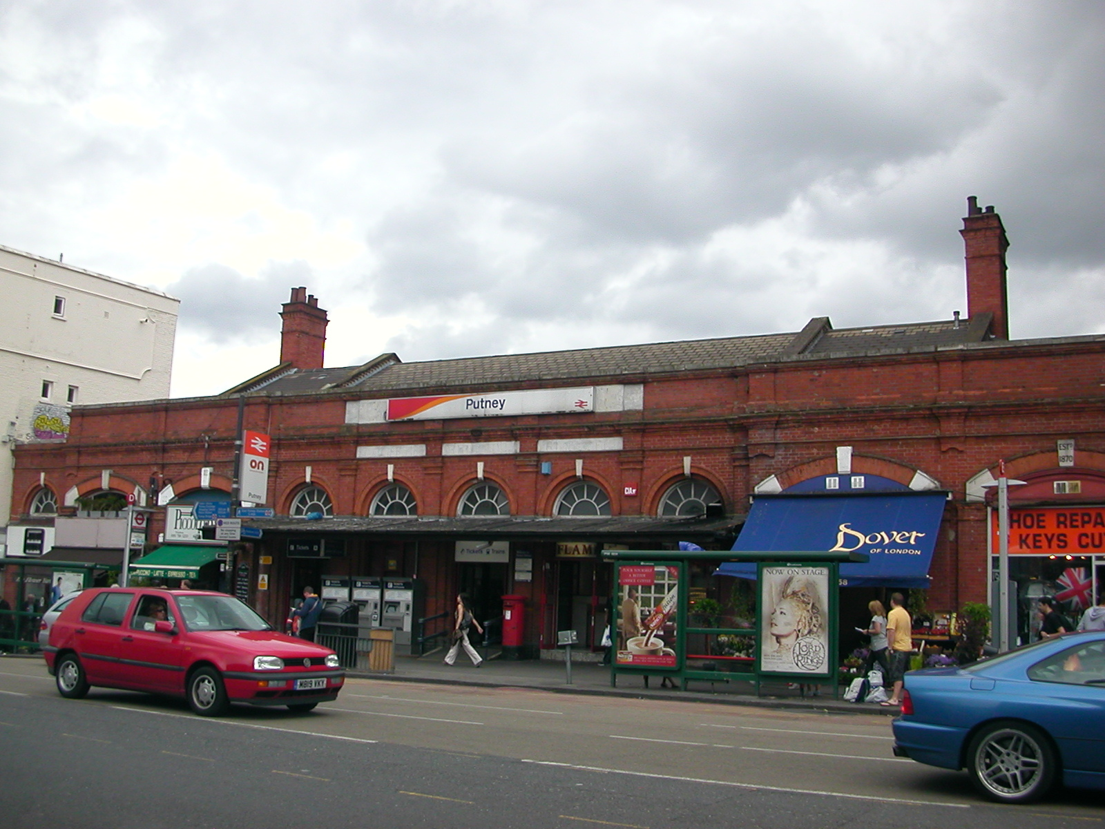 Street-level entrance building at Putney railway station, close to the A205/A219 junction. Photographed on 16th June 2007.